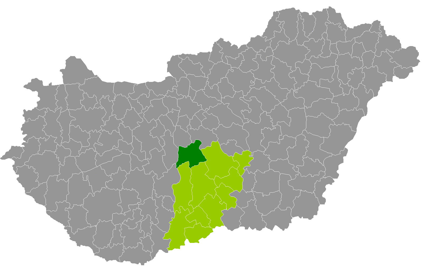 Location of Kunszentmiklós District, Bács-Kiskun, Hungary